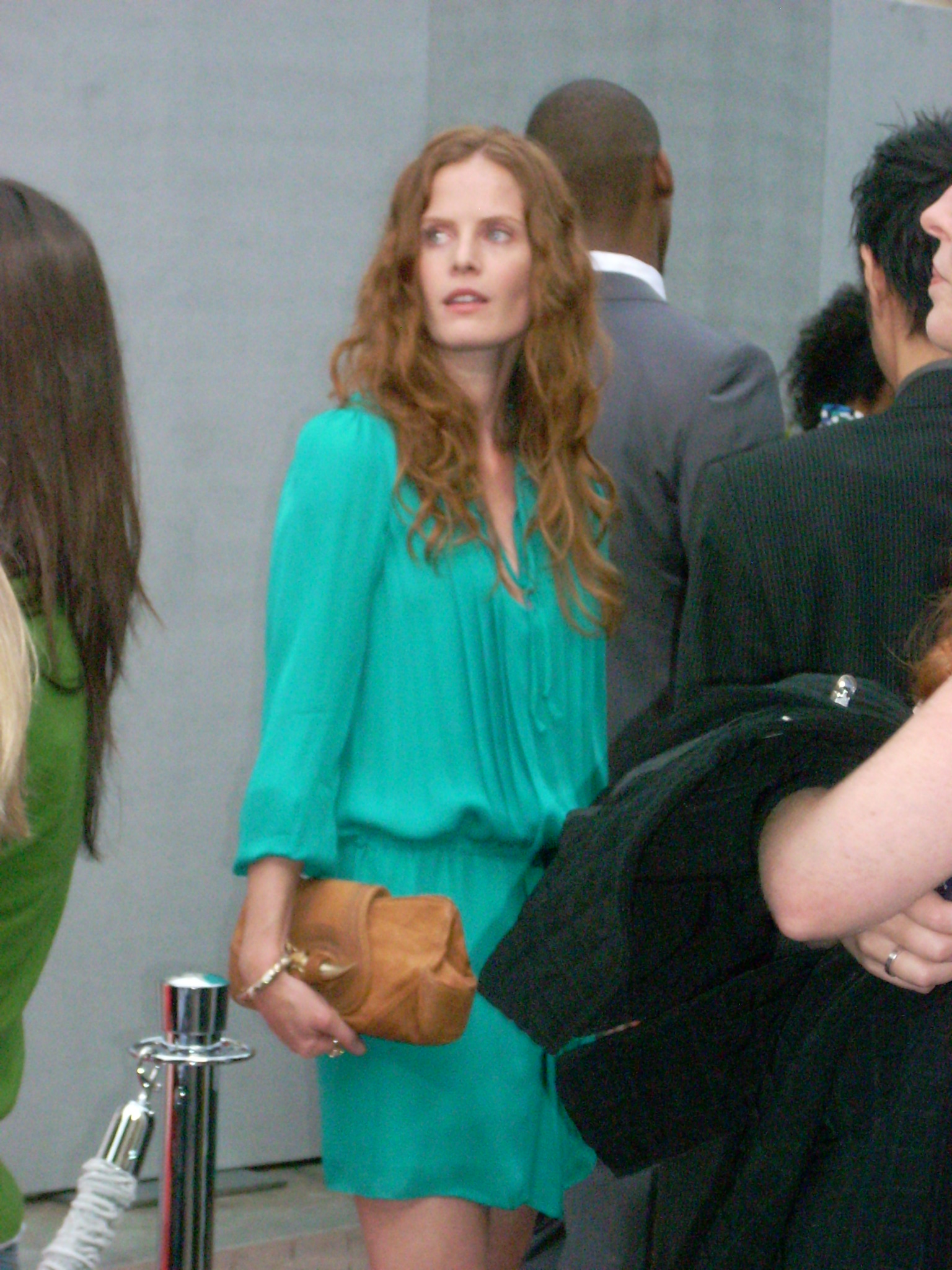 Rebecca Mader at the "True Blood" Season Two Premiere Party - Paramount Theater, Paramount Studios, Hollywood, Calif. - June 9, 2009